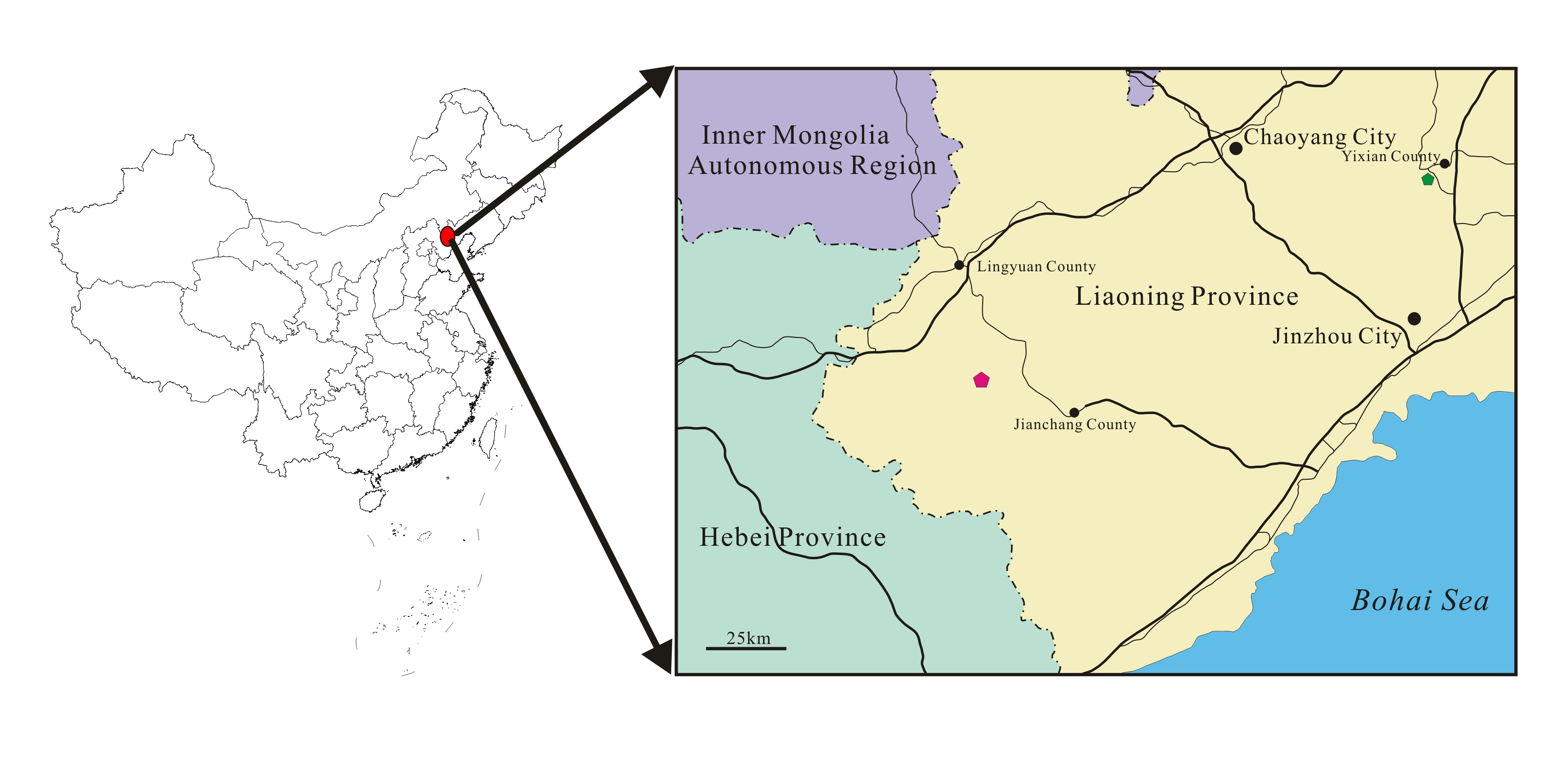 A map of the fossil locality of Gladocephaloideus jingangshanensis (JPM 2014–004). The green solid pentagon (near Yixian County) represents the holotype locality.